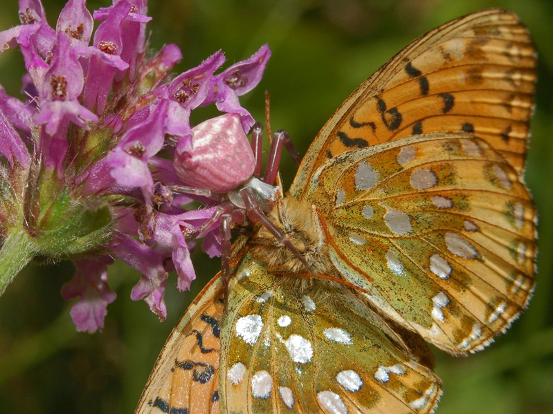 A pink Thomisus onustus hunting a butterfly (Argynnis aglaia) in Piani di Praglia, Genova, Italy